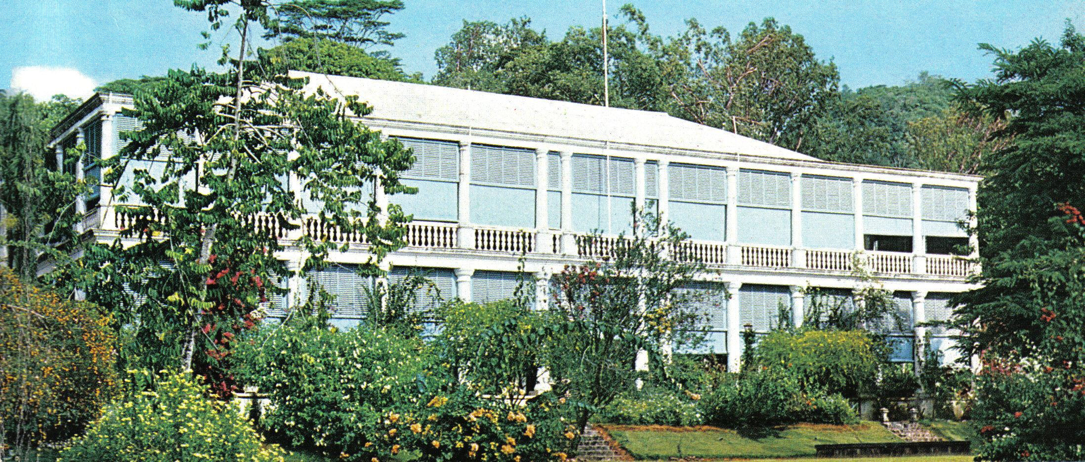 The State House in Victoria, Seychelles - seat of the President of Seychelles. In the colonial period it was known as the Government House and served as a seat of the colonial administration. The building was erected in 1911, this picture was taken in early 1970s.